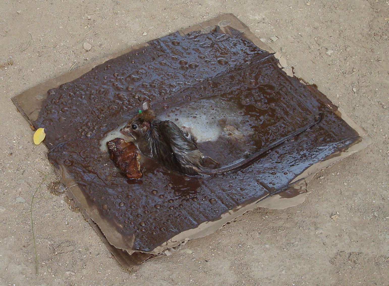 A rat caught in a glue trap